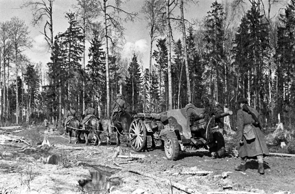 “Gunners of the 19th Guards Rifle Regiment”. Gunners of the 19th Guards Rifle Regiment. 8th Guards Panfilov Division. North-Western front. 1943. The Great Patriotic War of 1941-1945.